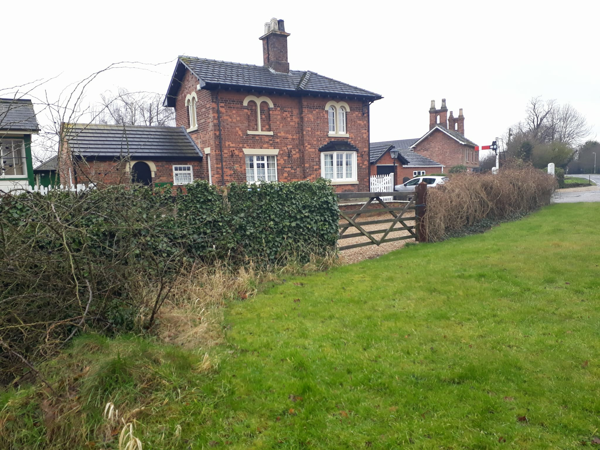 My own.